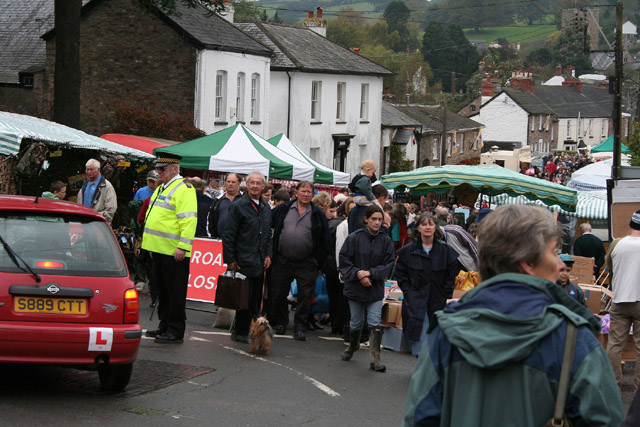 Bampton: Bampton Charter Fair. The fair seen from near the Seahorse Inn, Briton Street. Bampton’s streets are closed to through traffic for the day. Held on the last Thursday in October, for centuries the fair functioned as a livestock market, it now caters for families rather than farmers